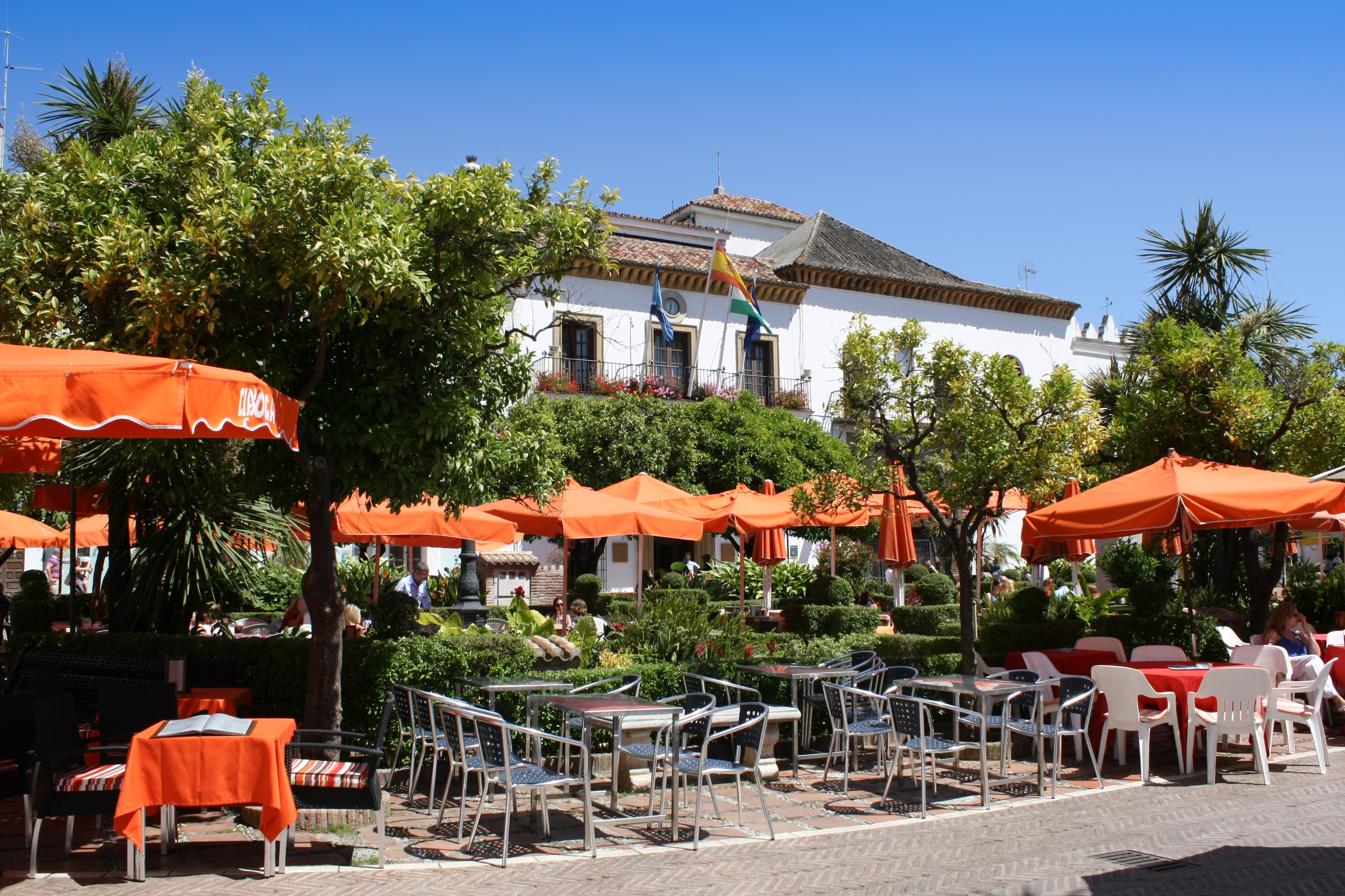 Looking over the Plaza De Los Naranjos towards to Marbella Town Hall